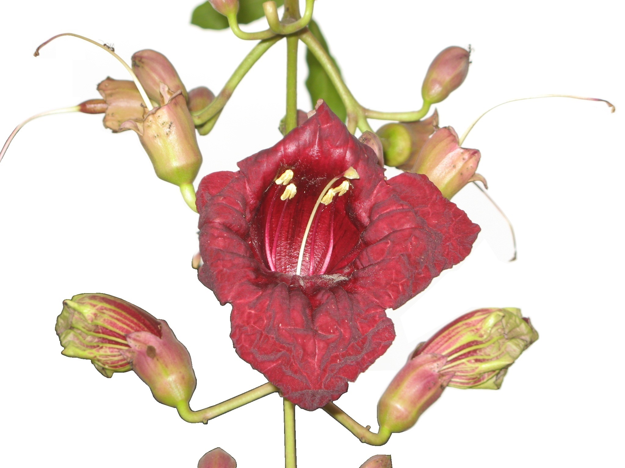 Open flower in the panicle of a Sausage tree (Kigelia africana) at Pretoriuskop Camp in Kruger National Park, South Africa